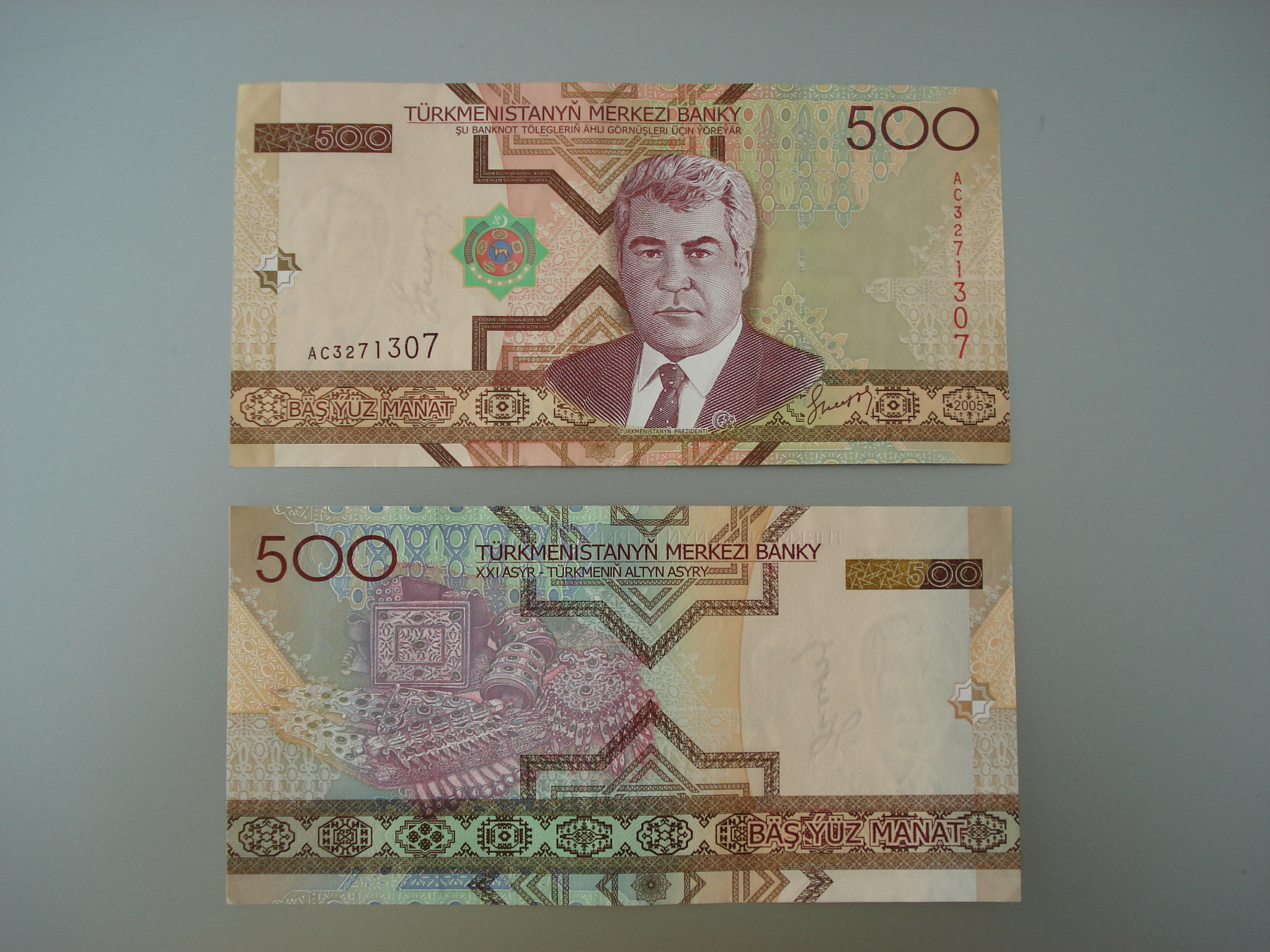 Image of Turkmen manat